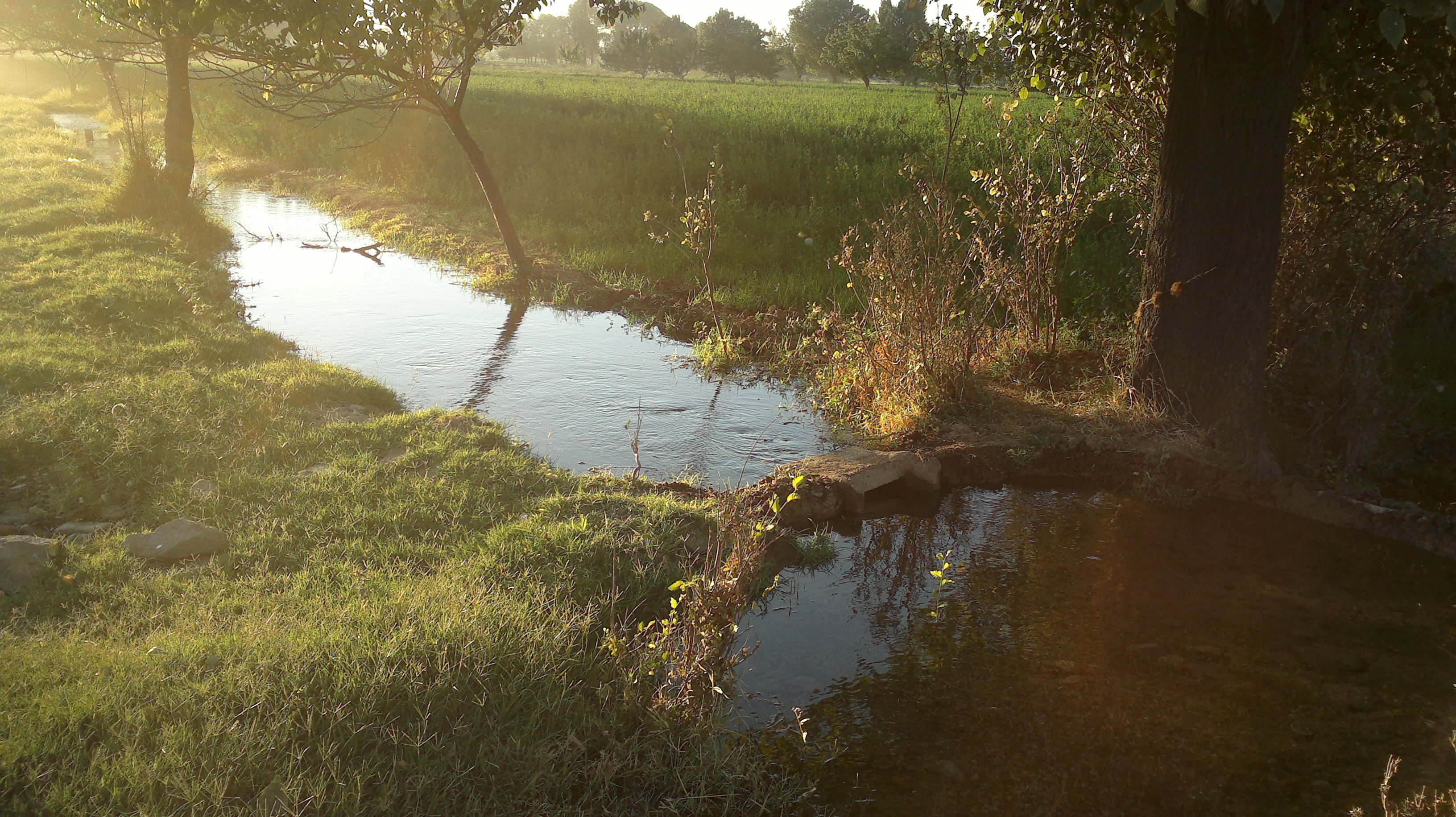 Agricultural lands of Shanbeghazan - Tabriz. Photographer : Mehran b. Ghazani